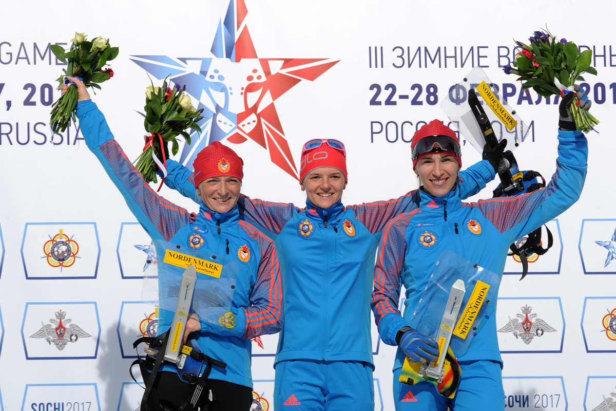 КЕЧКИНА Мария (Россия), ОБОРИНА Татьяна (Россия), КРАВЧЕНКО Анастасия (Россия). Лыжное ориентирование, спринт, женщины. III Зимние Всемирные военные игры. Лыжно-биатлонный комплекс «Лаура», Сочи, Россия. 26 февраля 2017. Фото Alexander Fedorov/CISM2017KECHKINA Mariia (Russia), OBORINA Tatiana (Russia), KRAVCHENKO Anastasia (Russia). Ski Orienteering, Sprint, Women. 3rd CISM World Winter Games. Laura Cross-Country Ski&Biathlon Centre, Sochi, Russian Federation. February 26, 2017. Photo by Alexander Fedorov/CISM2017